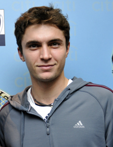 Gilles Simon at 2008 Tennis Masters Cup